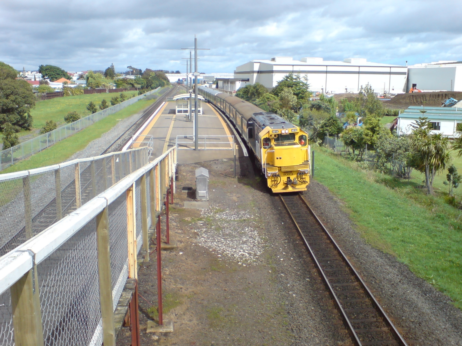 Puhinui Train Station, former Manukau City (now Auckland), New Zealand. Looking southwards from the pedestrian overbridge.